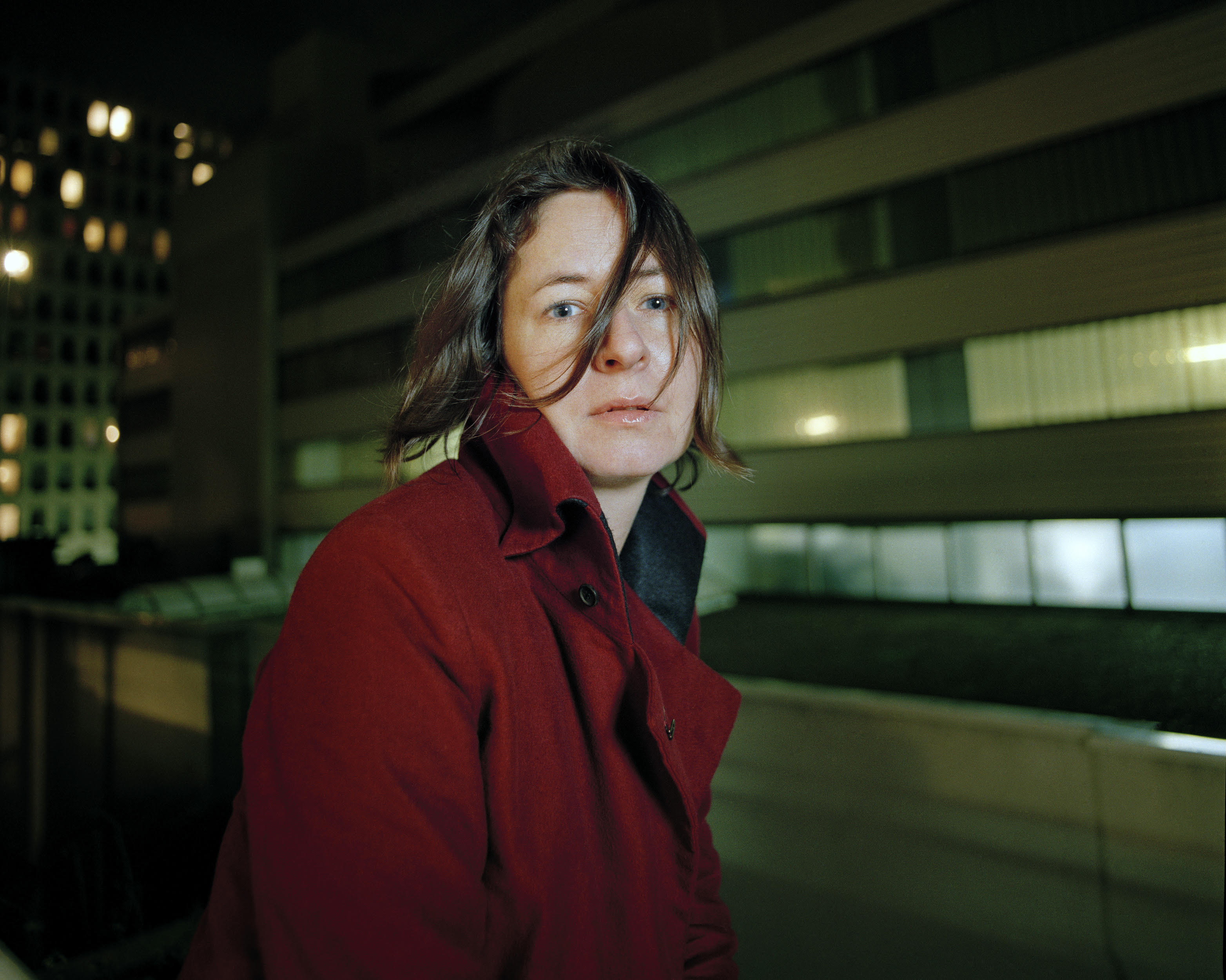 Dominique Gonzalez-Foerster portrayed by Oliver Mark, Paris 2002